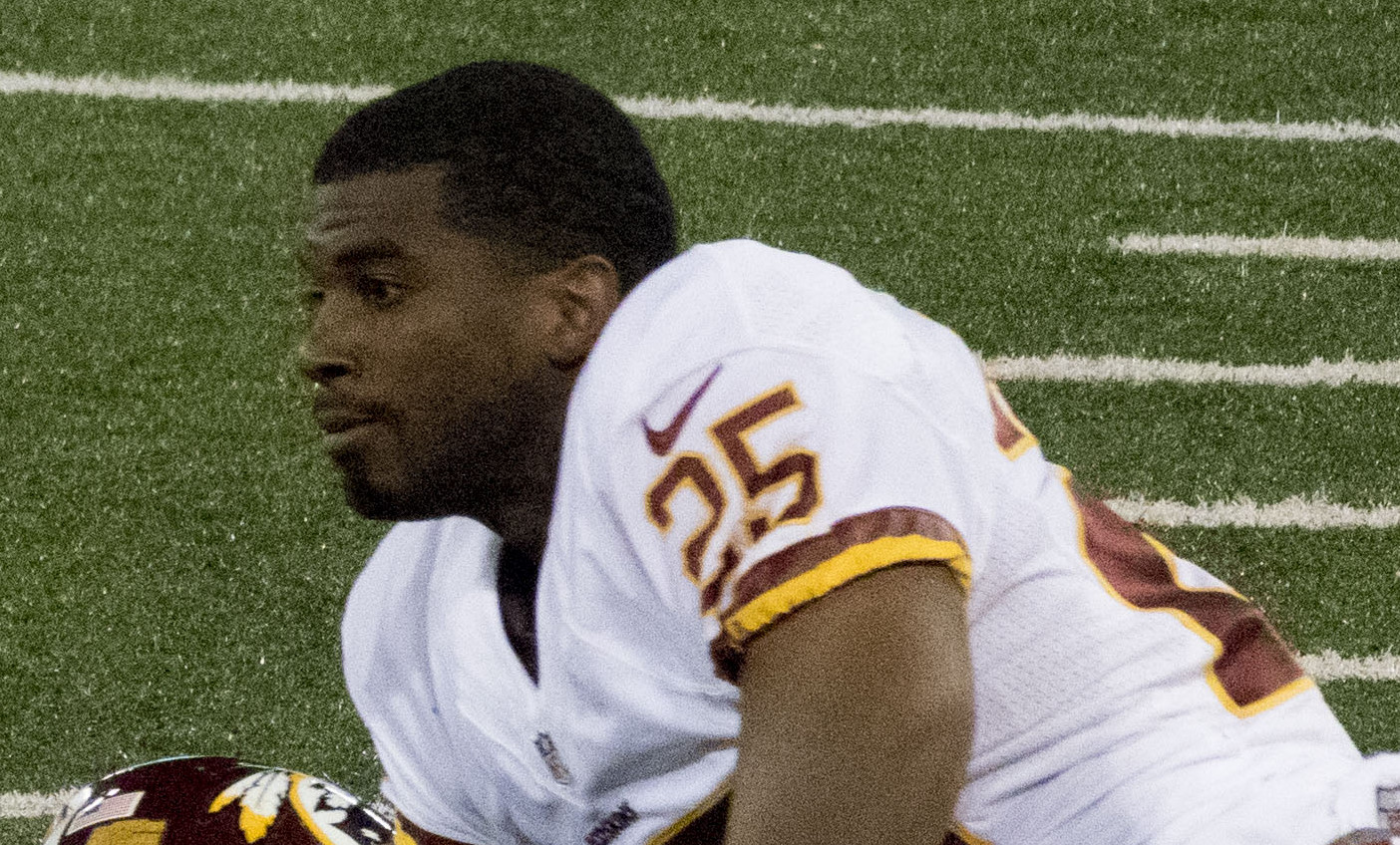 Washington Redskins cornerback, Justin Rogers, in a preseason game against the Baltimore Ravens on August 29, 2015.